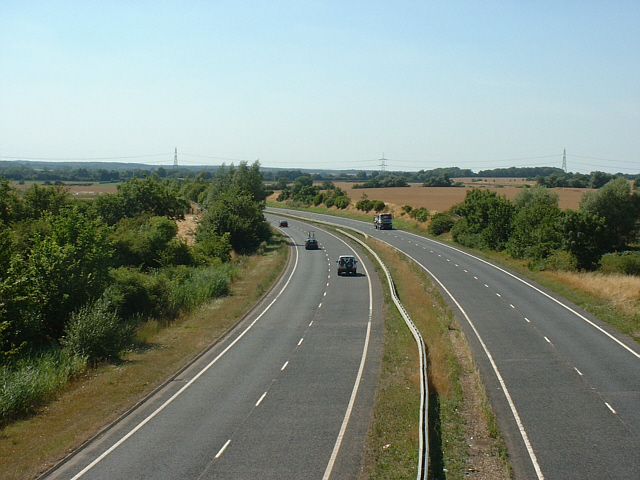 A47 at Ailsworth, Peterborough, looking west. The A47 looking west as it passes beneath Helpston Road, Ailsworth, Peterborough. The break in the central barrier serves as a crossing for pedestrians and is signed as such on each carriageway. The road is quiet on Sundays - anyone using this crossing at any other time, risks life or limb!